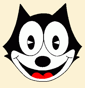 Felix head. He was from head. Felix the Cat